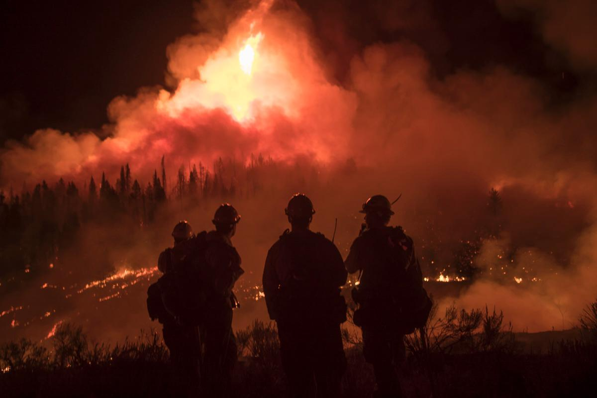 Fighters observe the Roosevelt Fire during the night of September 26, 2018. Located near Bondurant, Wyoming, the fire had consumed over 50,000 acres by the time this picture was taken.